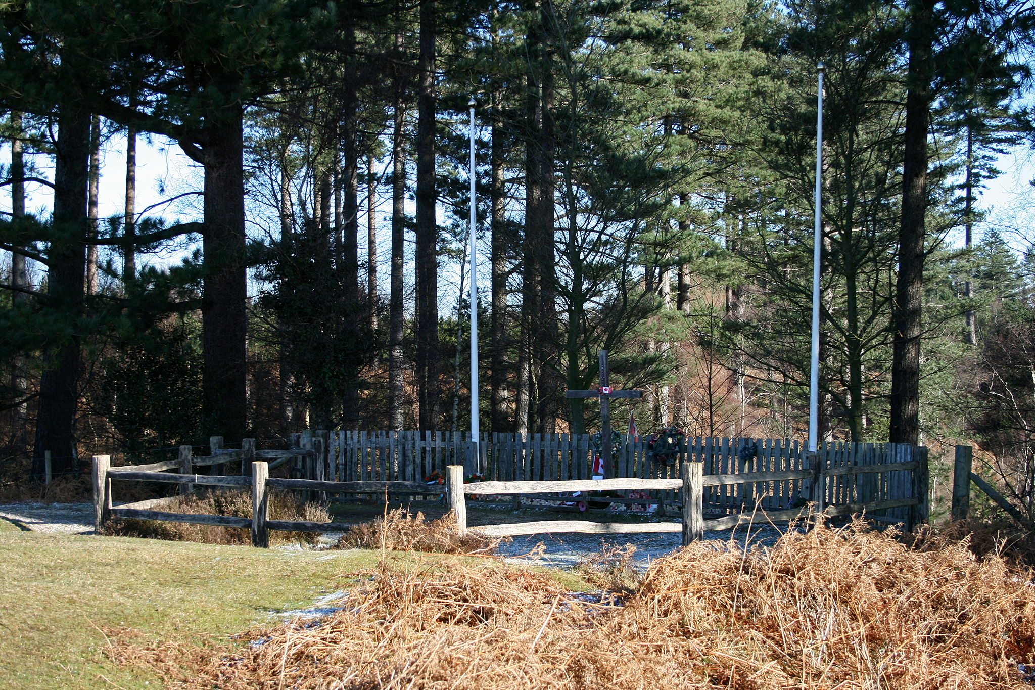 In early 1944 prior to the invasion of Normandy on D-Day, the 3rd Division of the Canadian Army was encamped in this part of the New Forest, reflected now by several local place names with the word Canada in them. A large wooden cross was erected here by Canadian troops where they held open-air church services until they embarked for the invasion.These men of the 3rd Canadian Division were the first wave assault troops to land on Juno Beach where they suffered heavy casualties. The Canadian Army never returned here, but the cross still survives, known locally as the Canadian Cross, maintained by local people, the Forestry Commission and latterly, the New Forest National Park Authority. The only change made has been the erection of a small gated rustic boundary fence intended to prevent New Forest wild ponies and the deer from eating the flowers placed at the foot of the cross by local people. Photographed on a very cold 30th January morning with remnants of frost still apparent on the wreaths laid at the annual service here on 11th November 2009. The bronze plaque at the foot of the cross is inscribed:ON THIS SITE A CROSS WAS ERECTED TO THE GLORY OF GOD ON 14th APRIL 1944.SERVICES WERE HELD HERE UNTIL D-DAY 6th JUNE 1944 BY MEN OF THE 3rd CANADIAN DIVISION RCASC. Image prepared by me George Hutchinson using a photograph supplied by Brian Burnell. The photograph should be attributed to Brian Burnell.